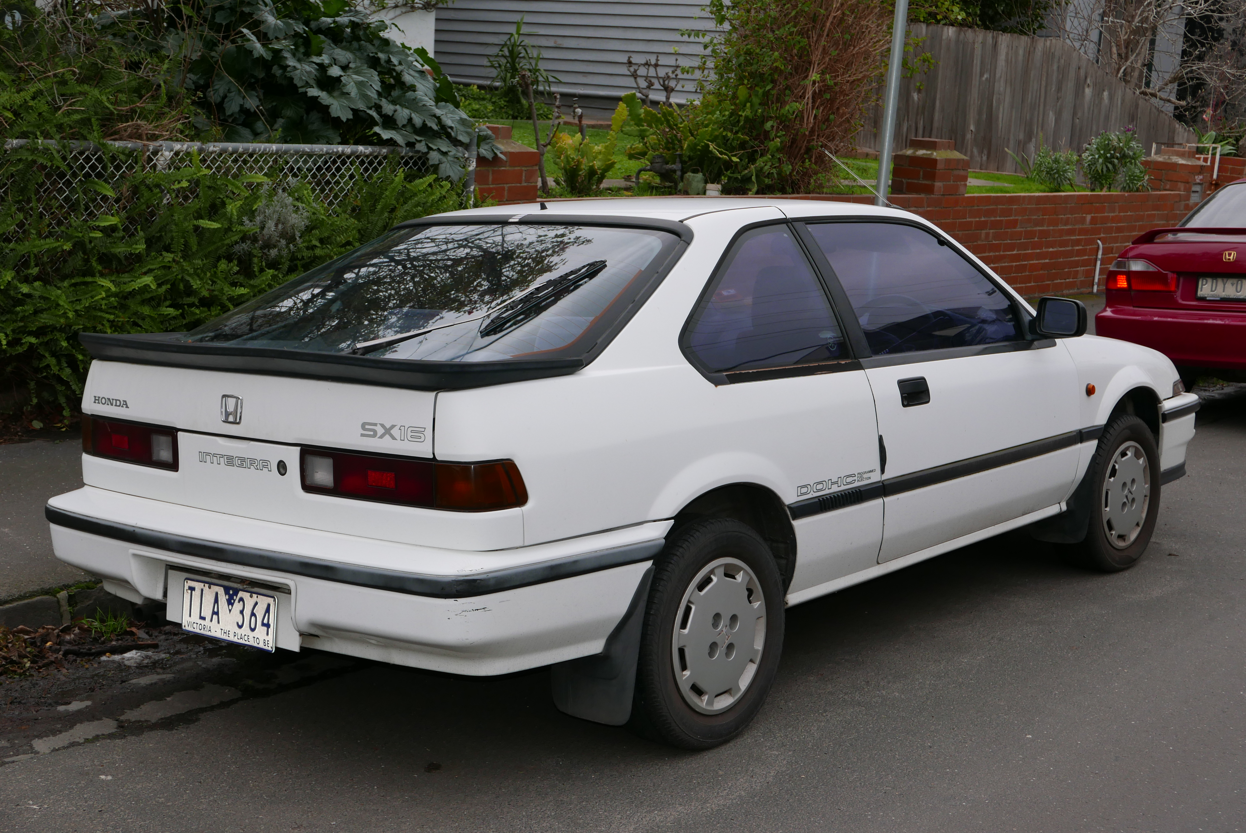 1989 Honda Integra (DA3) SX16 3-door hatchback. Photographed in Brunswick East, Victoria, Australia. Vehicle registration enquiry results Jurisdiction Victoria Registration TLA364 Chassis code Not available Engine code D16A31401588 Compliance date Not available Year of manufacture 1989